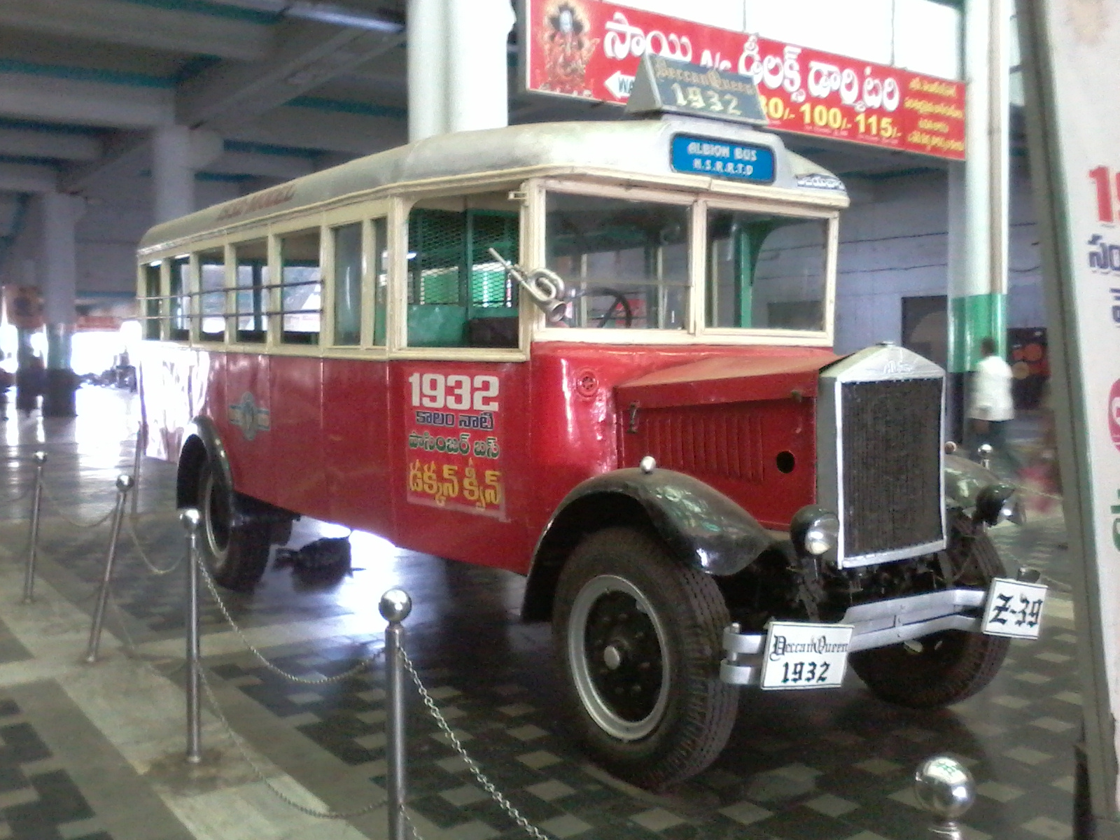 One of the first buses of India. Name of the bus is Deccan Queen and was used in passenger service by the Nizams of Hyderabad Kigndom. It is a 1932 model bus. It is being displayed at the Vijayawada bus station